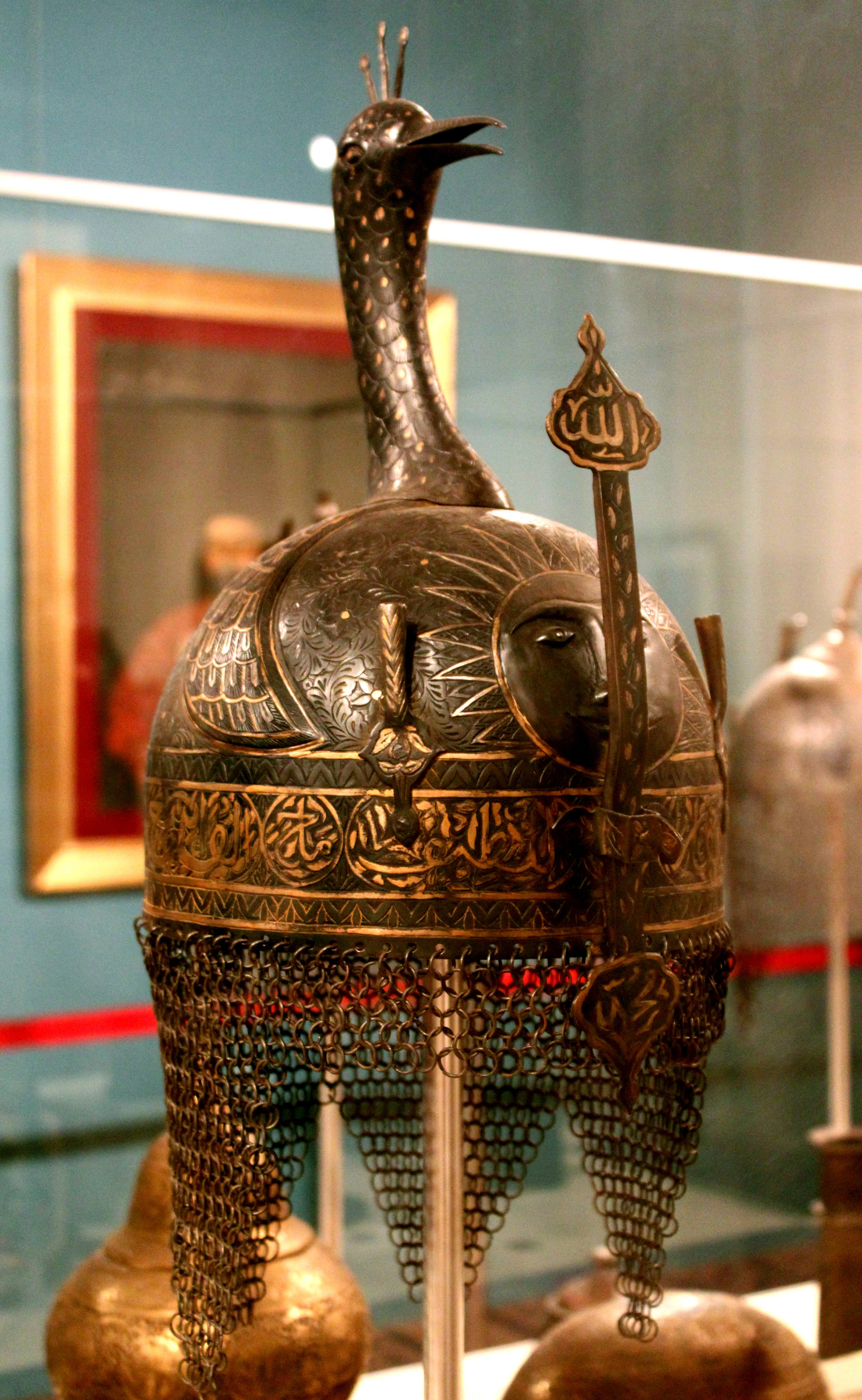 Medieval azerbaijani helmet (Azerbaijani Atabeys)